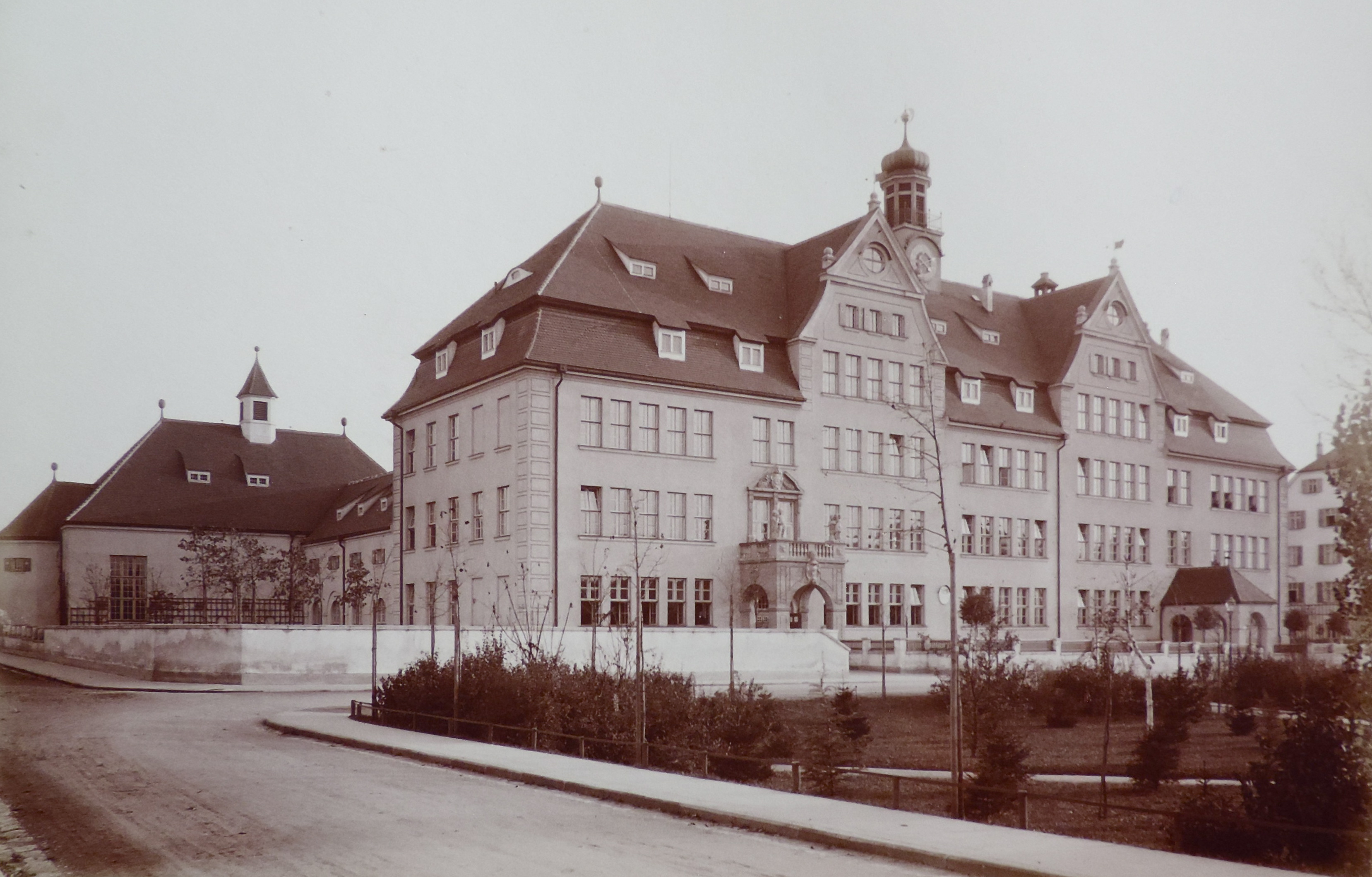 Views and photos of Bayreuth, Germany, gifted to Ferdinand I of Bulgaria to commemorate his 25-year rule. High school, 1910.